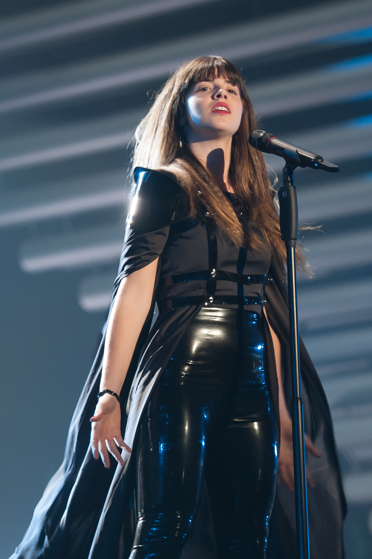 Eurovision Song Contest Vienna 2015: Leonor Andrade